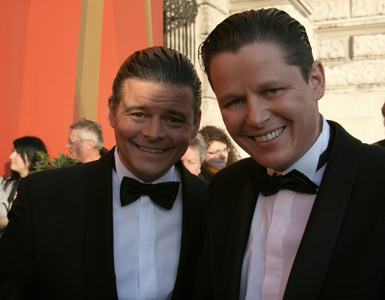 Andreas Wojta and Alexander Fankhauserat the Romy TV awards (Hofburg Imperial Palace in Vienna)